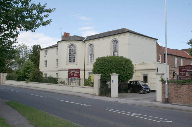 Southwell Baptist Church An unusual layout with an apsidal extension and the ministers dwelling attached at the far end.